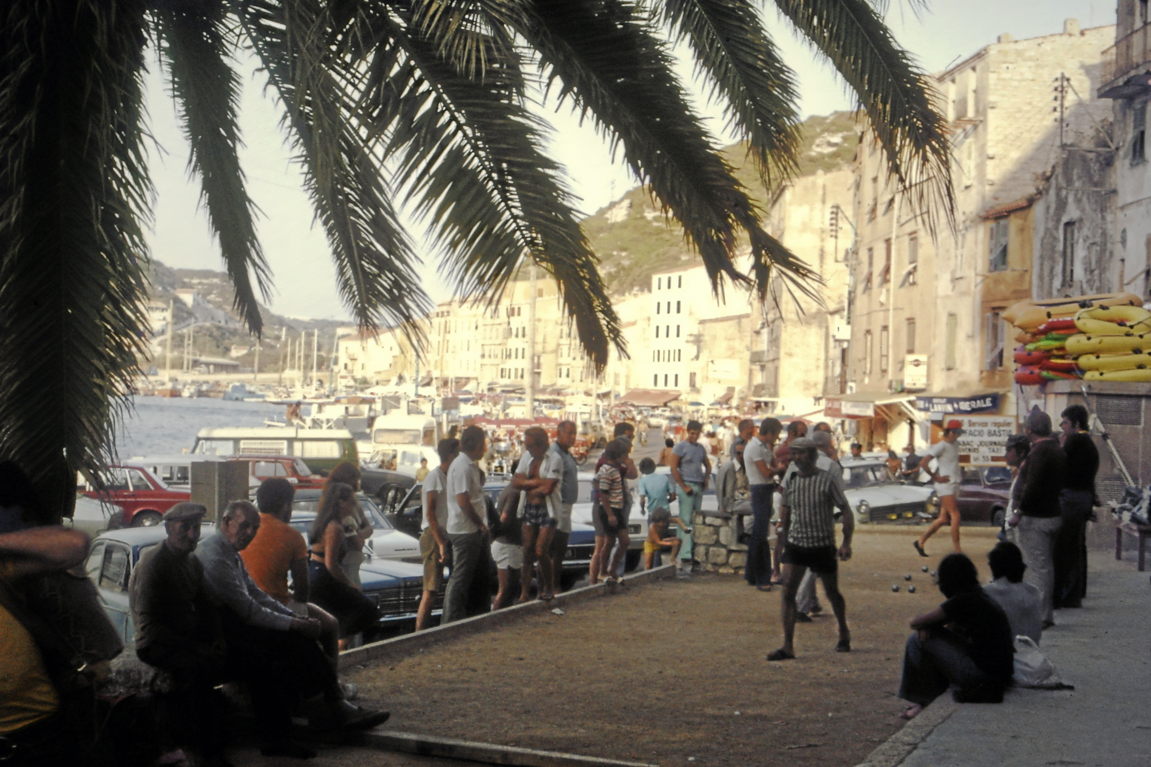 Boules players at the boat harbor of Bonifacio in August 1975 (The photograph was taken on a hot afternoon.)